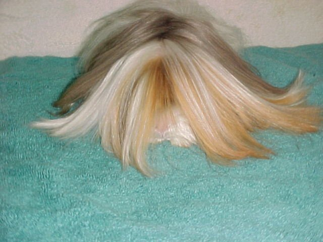 Cavia porcellus - A long-haired lilac, orange and white Satin Peruvian Guinea pig. "I took this photo myself of one of my cavies."